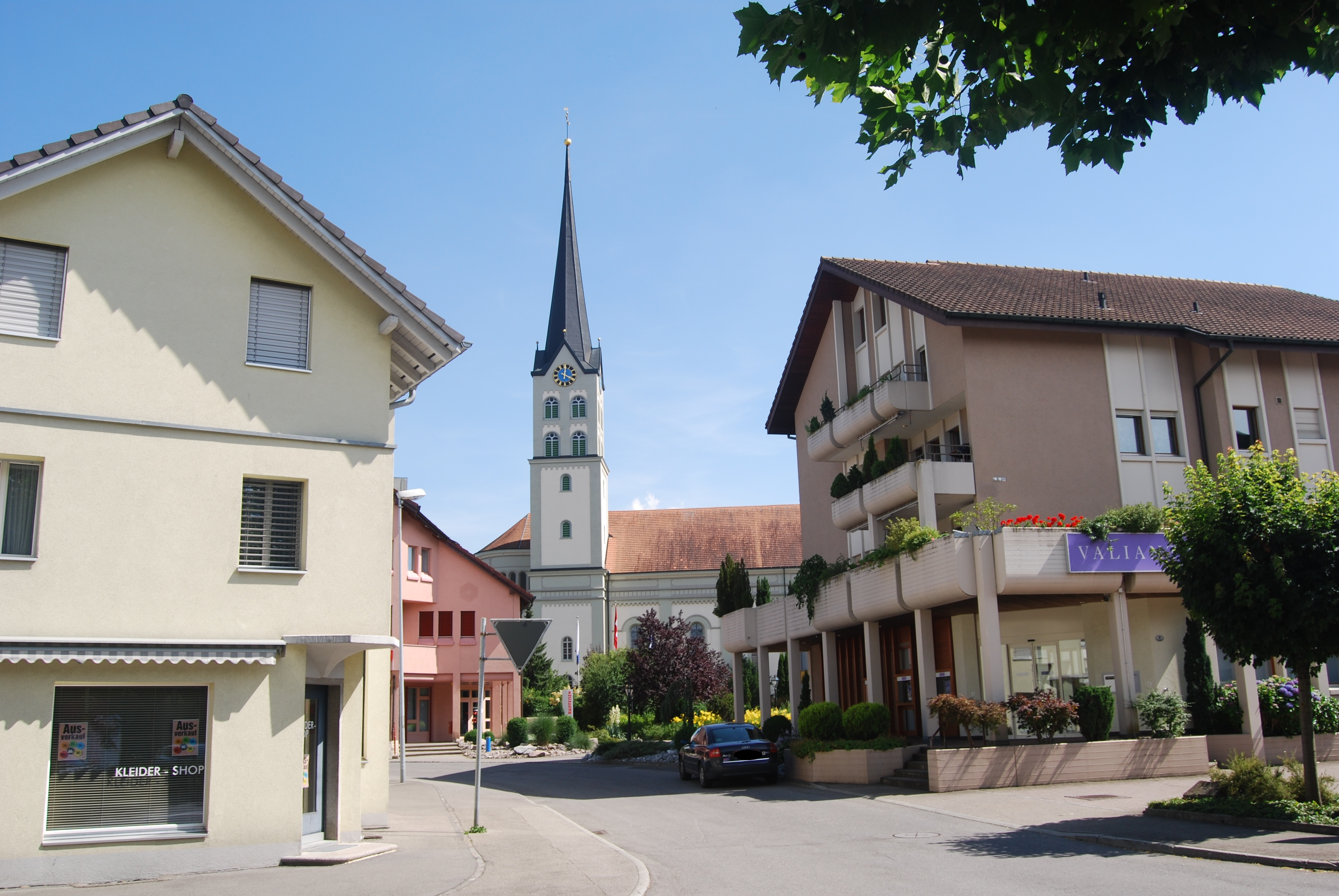 Church of Schötz, canton of Luzern, Switzerland